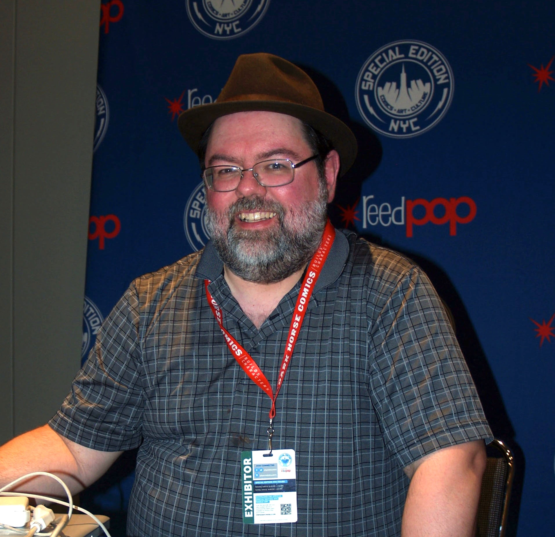 Comics editor Tom Brevoort sitting on the Marvel: Next Big Thing panel on Saturday, June 14, 2014, Day 1 of Special Edition NYC, a comic book convention at the Jacob K. Javits Convention Center in Manhattan. This photo was created by Luigi Novi. It is not in the public domain, and use of this file outside of the licensing terms is a copyright violation.